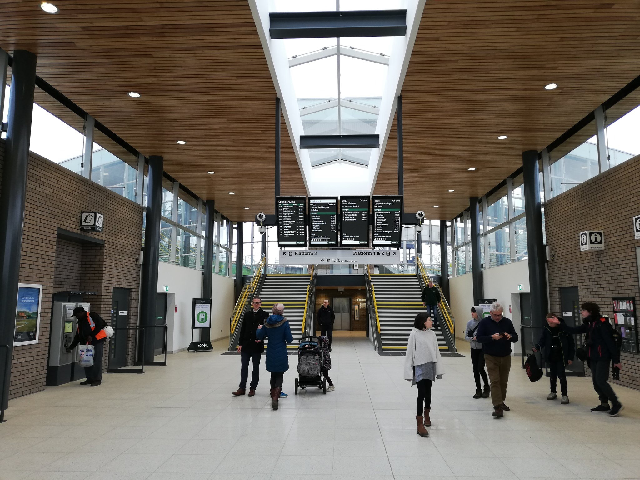 The station concourse of Worcestershire Parkway station